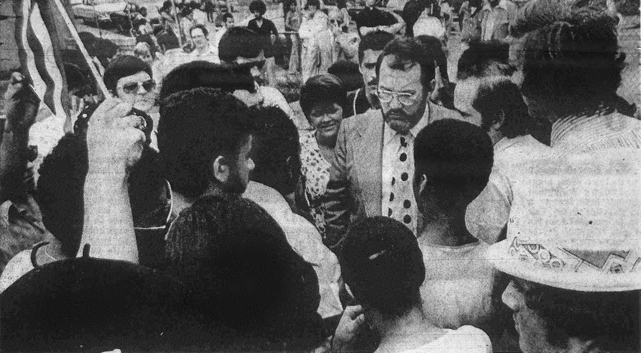 Mayor William Taupier (center, in polka-dotted tie) is confronted by members of the Puerto Rican community and other residents of Ward 1 in Holyoke, Massachusetts, and presented a list of demands and allegations about police actions and a curfew previously imposed under his administration.